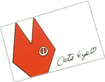 Reproduction of Cat's Eye Ticket